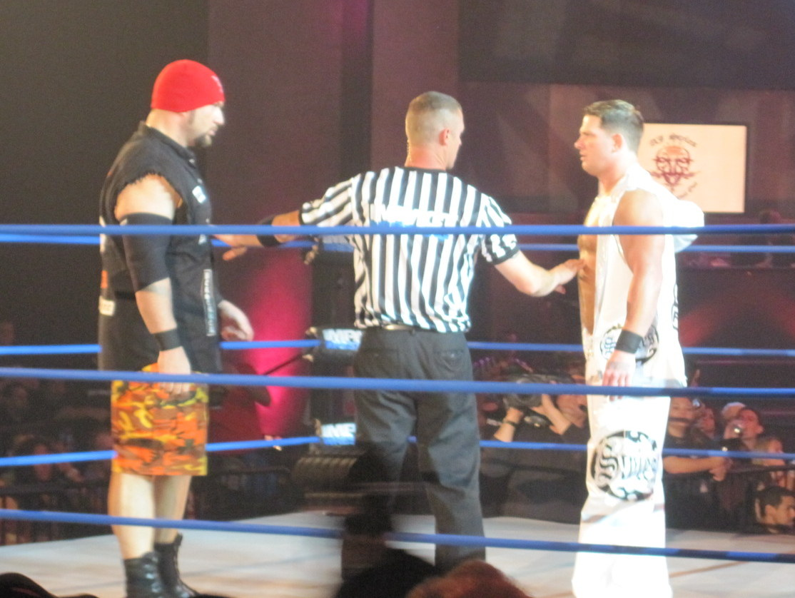 Sunday, June 12, 2011. Universal Orlando